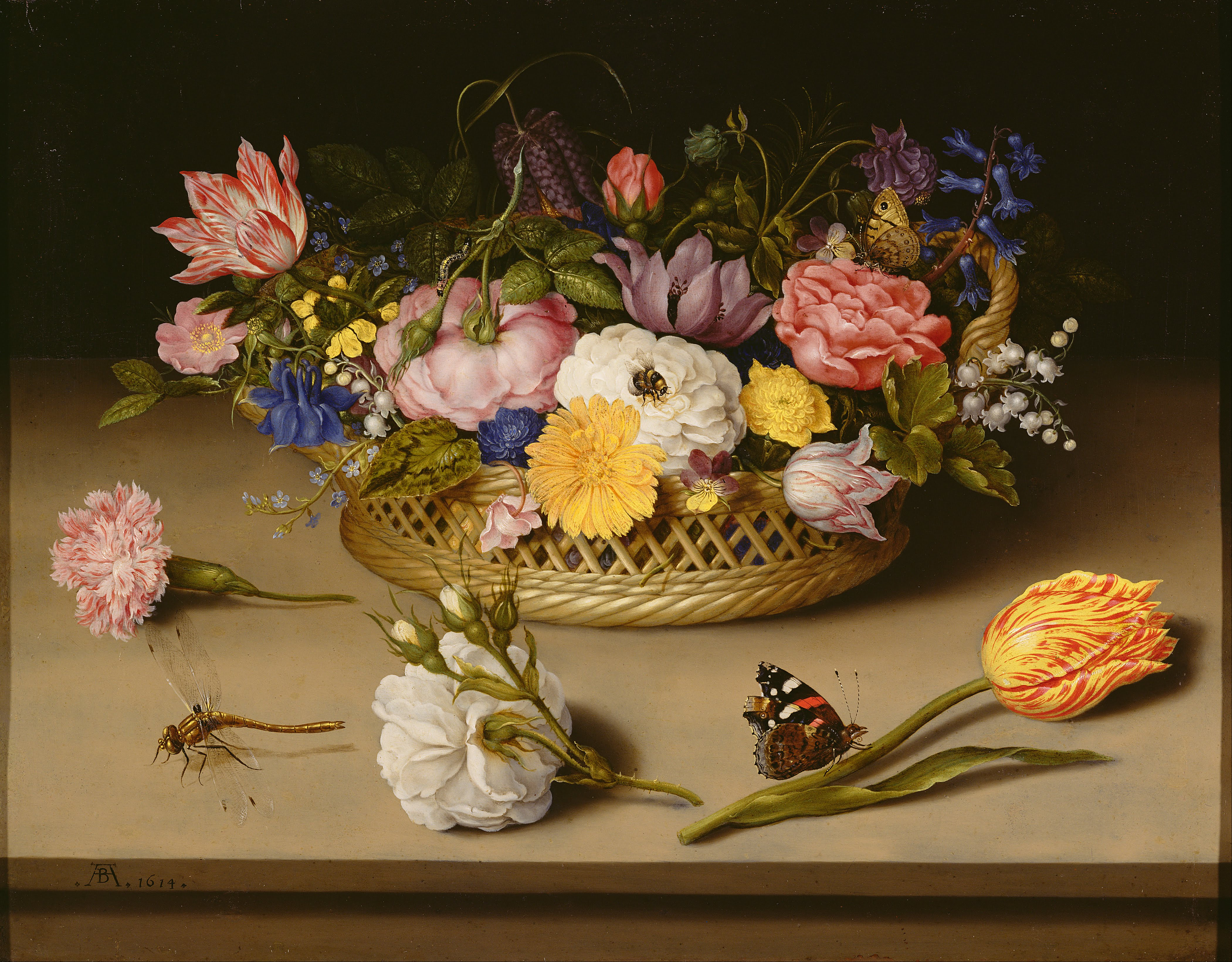 A pink carnation, a white rose, and a yellow tulip with red stripes lie in front of a basket with flowers, that would not bloom together: roses, forget-me-nots, lilies-of-the-valley, a cyclamen, a violet, a hyacinth, and tulips. Insects, short-lived like flowers, remind of the brevity of life and the transience of its beauty.